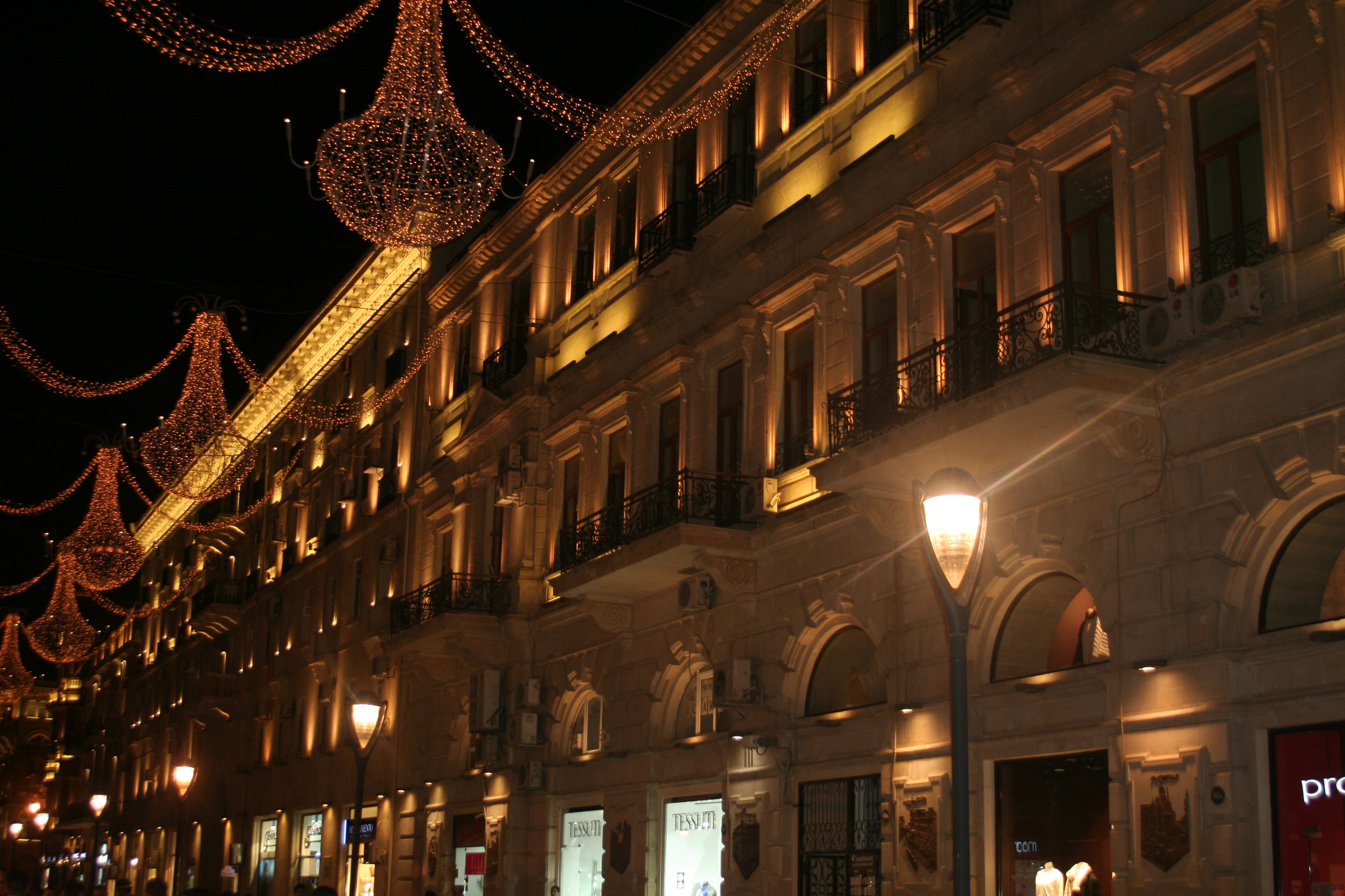 Building on Nizami Street 58. Built in 1902.